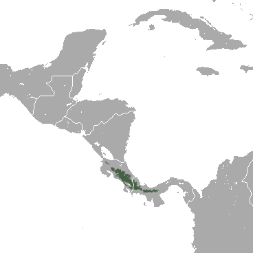 Blackish Small-eared Shrew (Cryptotis nigrescens) range